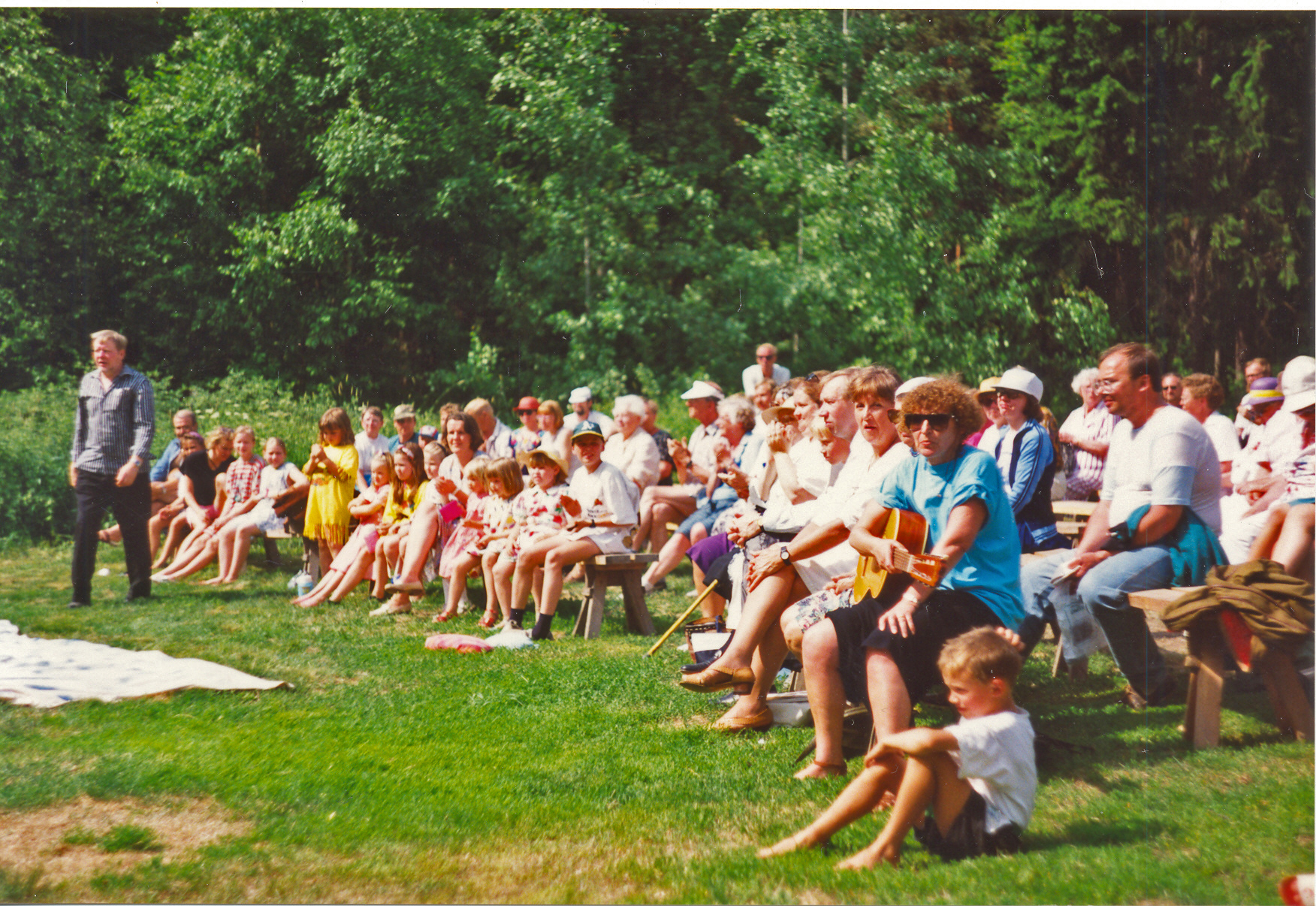 Audience of the children's theatre Vekara Teatteri performing at Kerava Museum on Kerava Day 1992.